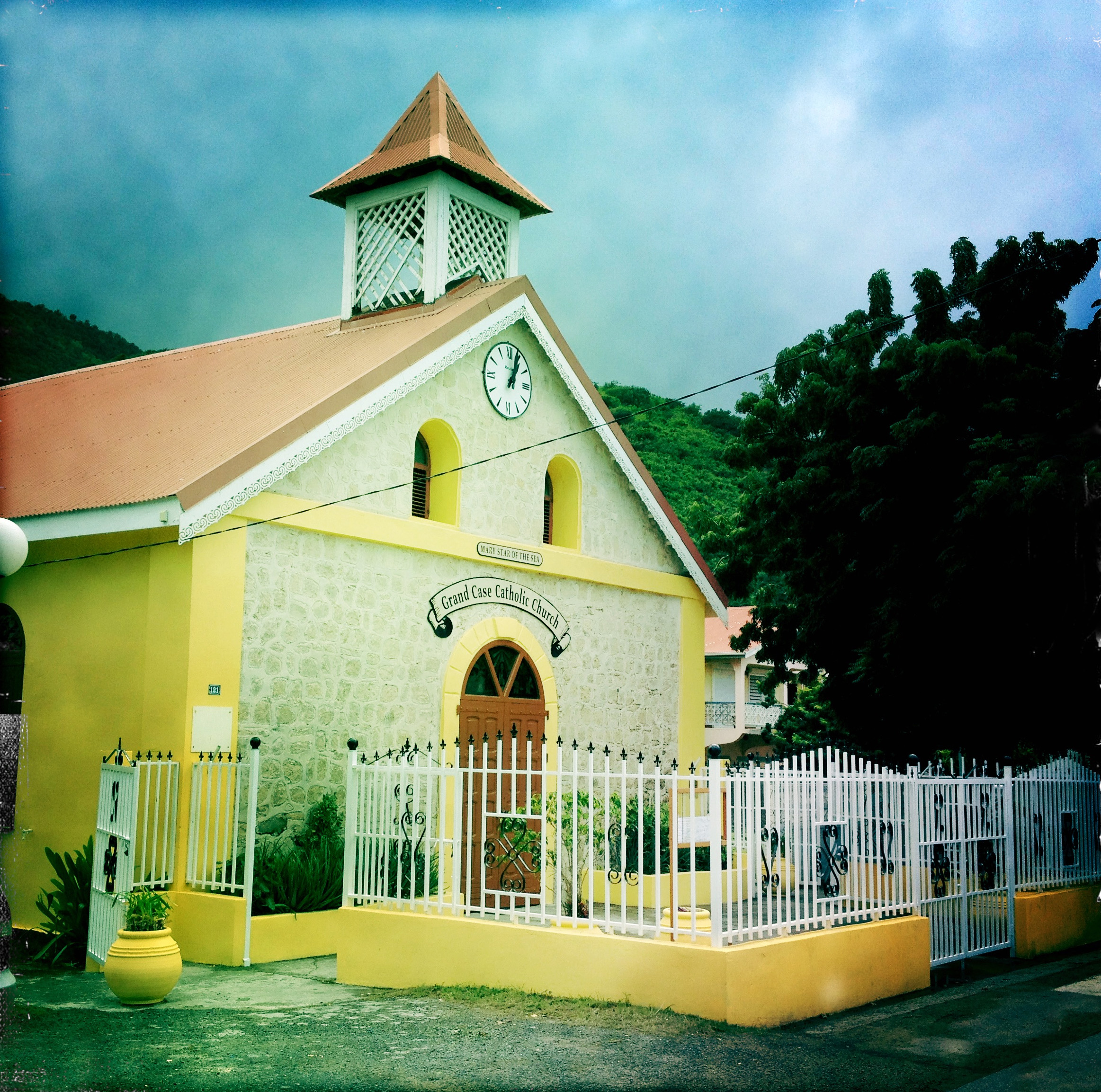 Grand Case Catholic Church, Saint Martin, French West Indies